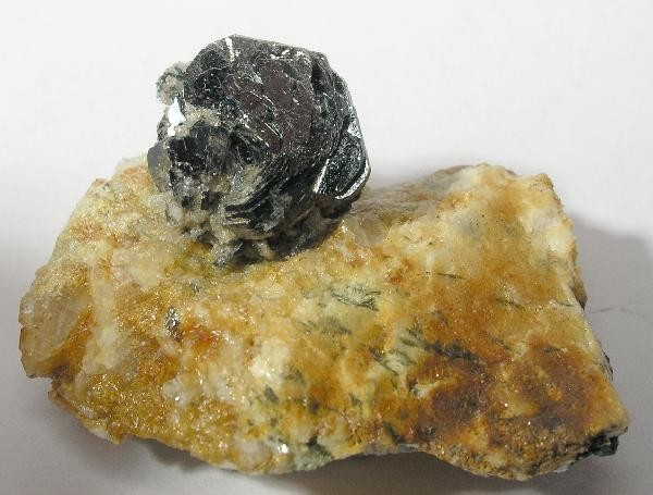 Ilmenite Locality: Tormiq valley (Tormic; Tormik; Tormig; Turmiq), Haramosh Mts., Skardu District, Baltistan, Northern Areas, Pakistan (Locality at ) Size: 3.0 x 2.4 x 1.6 cm. Fine rosette of mirror-like Ilmenite perched perfectly on matrix. The rosette is a full 1 cm across, and calls forth memories of the very fine Hematite rosettes that we have seen and appreciated for years. The Ilmenite has a dusting of fine Quartz crystals to add a nice amount of contrast and interest. There is even a nice iridescence along the top edge of the Ilmenite! Ex. Steve Smale Collection.